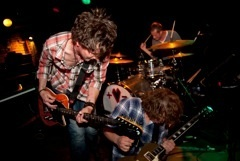 Lovedrug in Concert